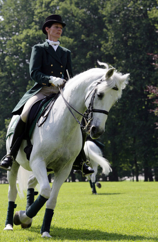 A rider guides a Lipizzaner stallion during an exhibition Tuesday, June 10, 2008, at Brdo Castle near Kranj, Slovenia.